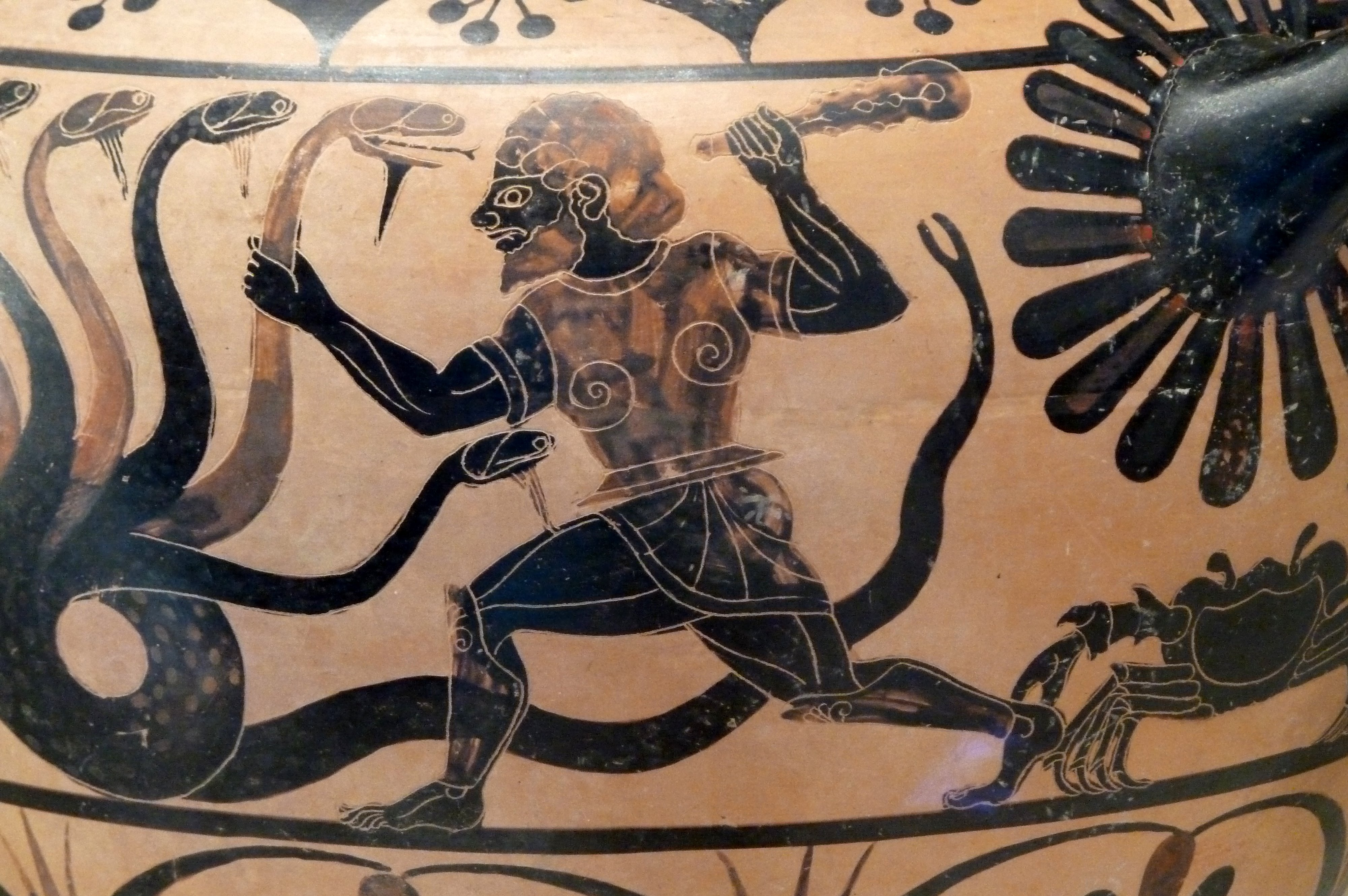 On the belly: Herakles, Iolaos, and the Lernean Hydra; two sphinxes on the reverse; and a crab under the horizontal handle. Etruscan pottery — at the Getty Villa, Los Angeles, California.